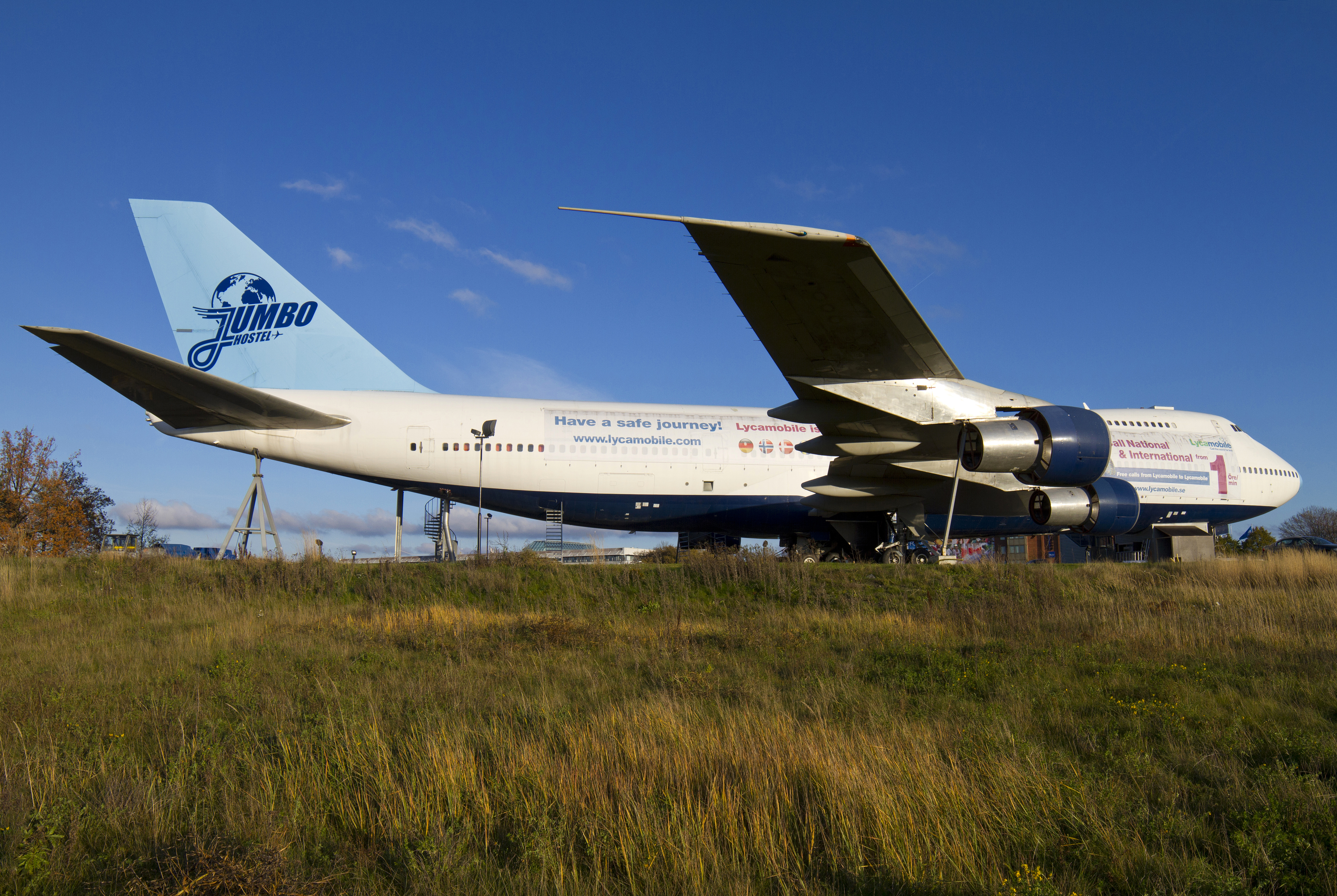 Jumbo Hostel at the highway entrance to Stockholm Arlanda International Airport in Sweden. This Boeing 747 is now used as a hostel at the airport. The plane has previously been used by Pan Am and Singapore Airlines and also the swedish charter airline Transjet.